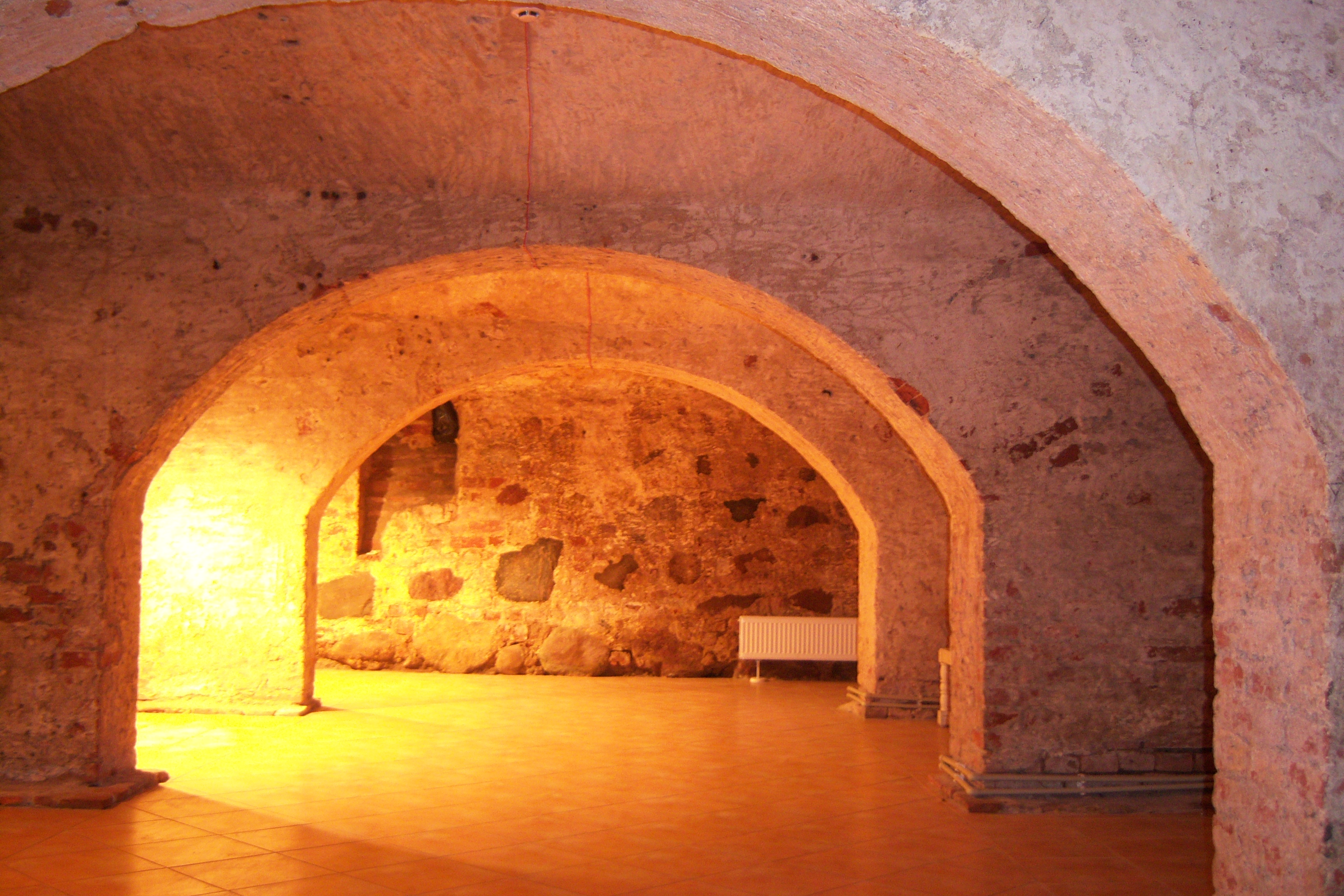 Sports Museum, basement exhibition rooms, Kaunas, Lithuania